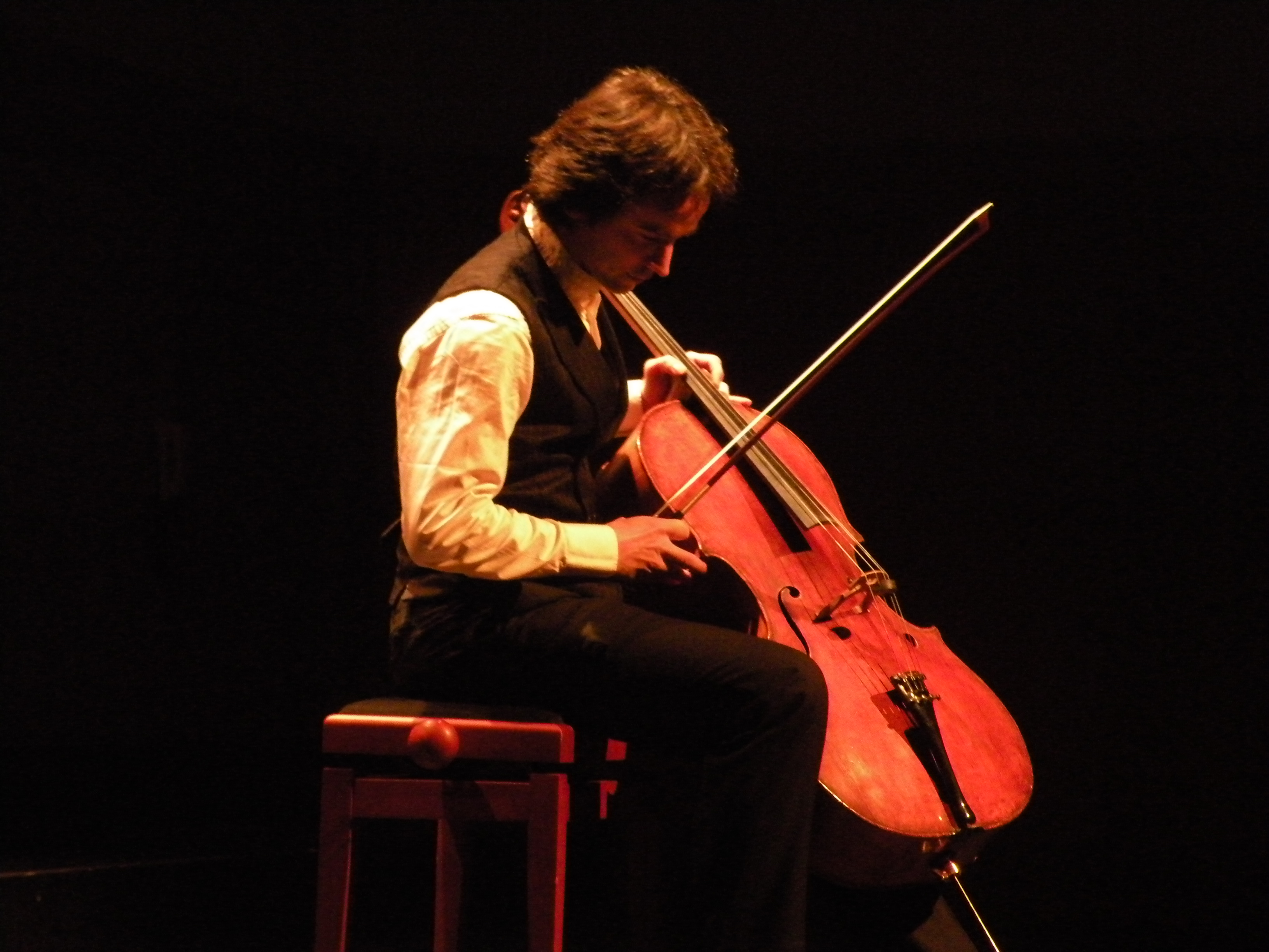 Jean-Guihen Queyras, french cellist, on 1st February 2009, during La Folle Journée in Nantes.